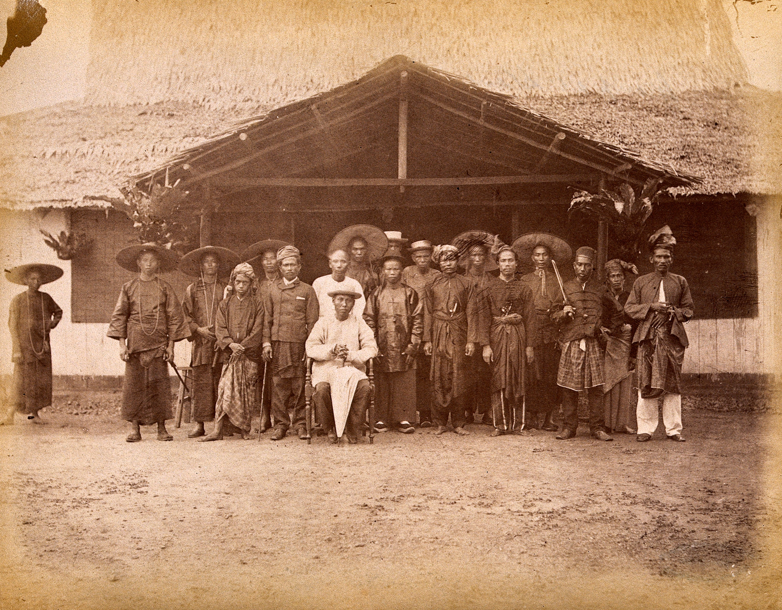 Captain China surrounded by his Chinese and Malay followers. Iconographic Collections Keywords: Captain China; Malaysia; John Edmund Taylor